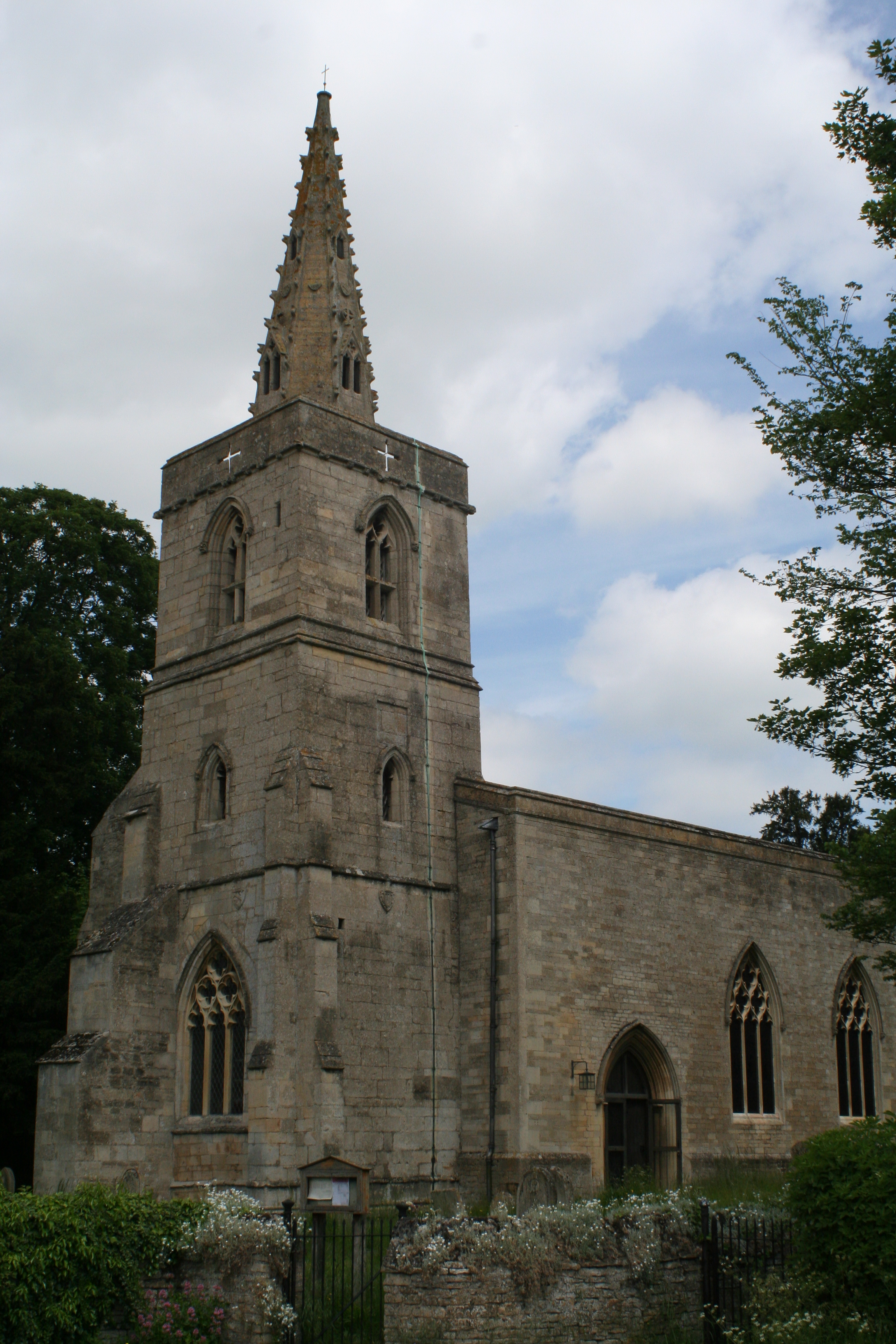 Southwick (Northants) church - by R Neil Marshman (c) - see metadata